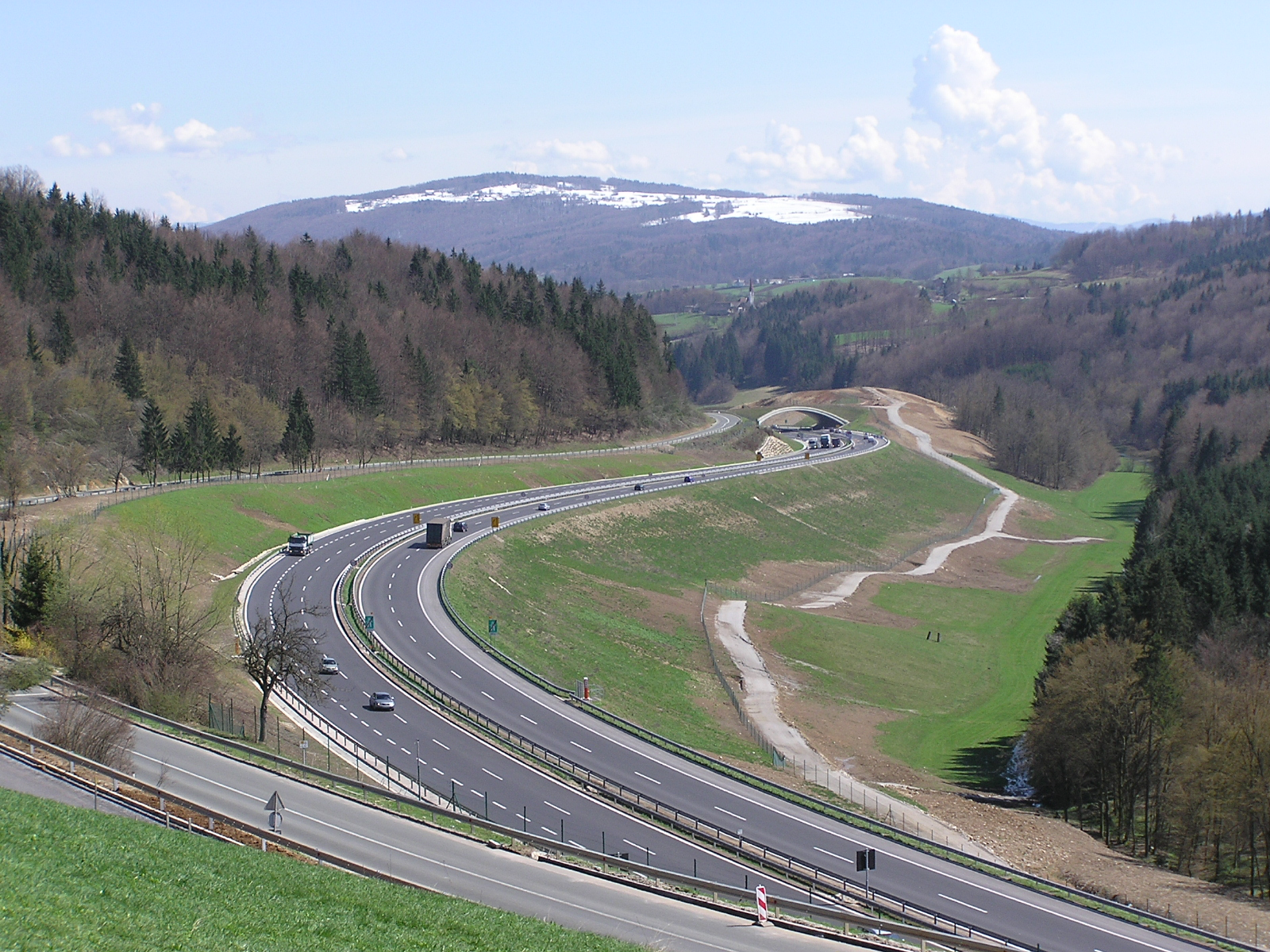 Medvedjek slope on Slovenian Motorway A2